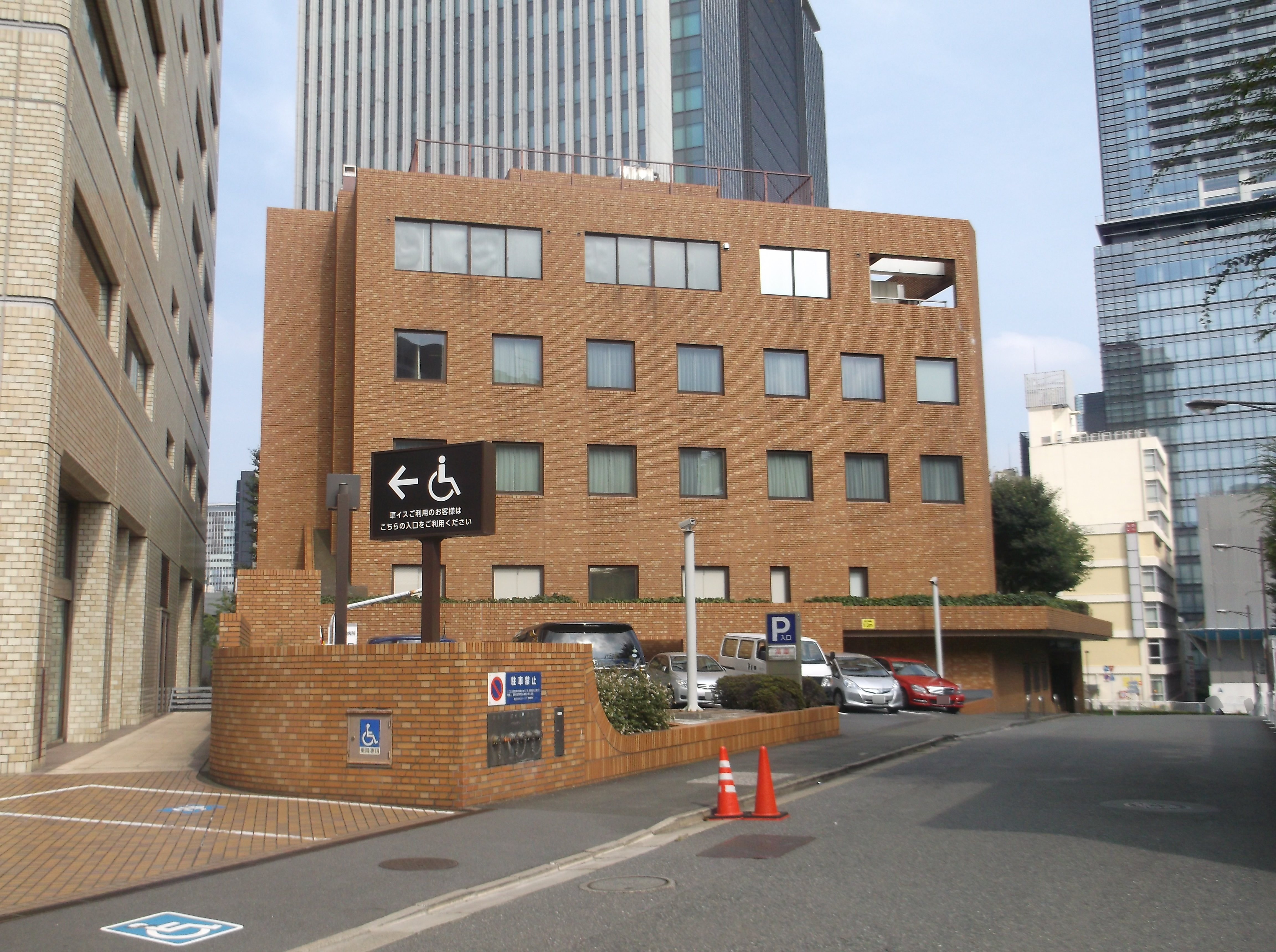 A photo of "Shinochanomizu Building" annex(Inoue Eye Hospital) Kandasurugadai,Chiyoda-ku,Tokyo,Japan.